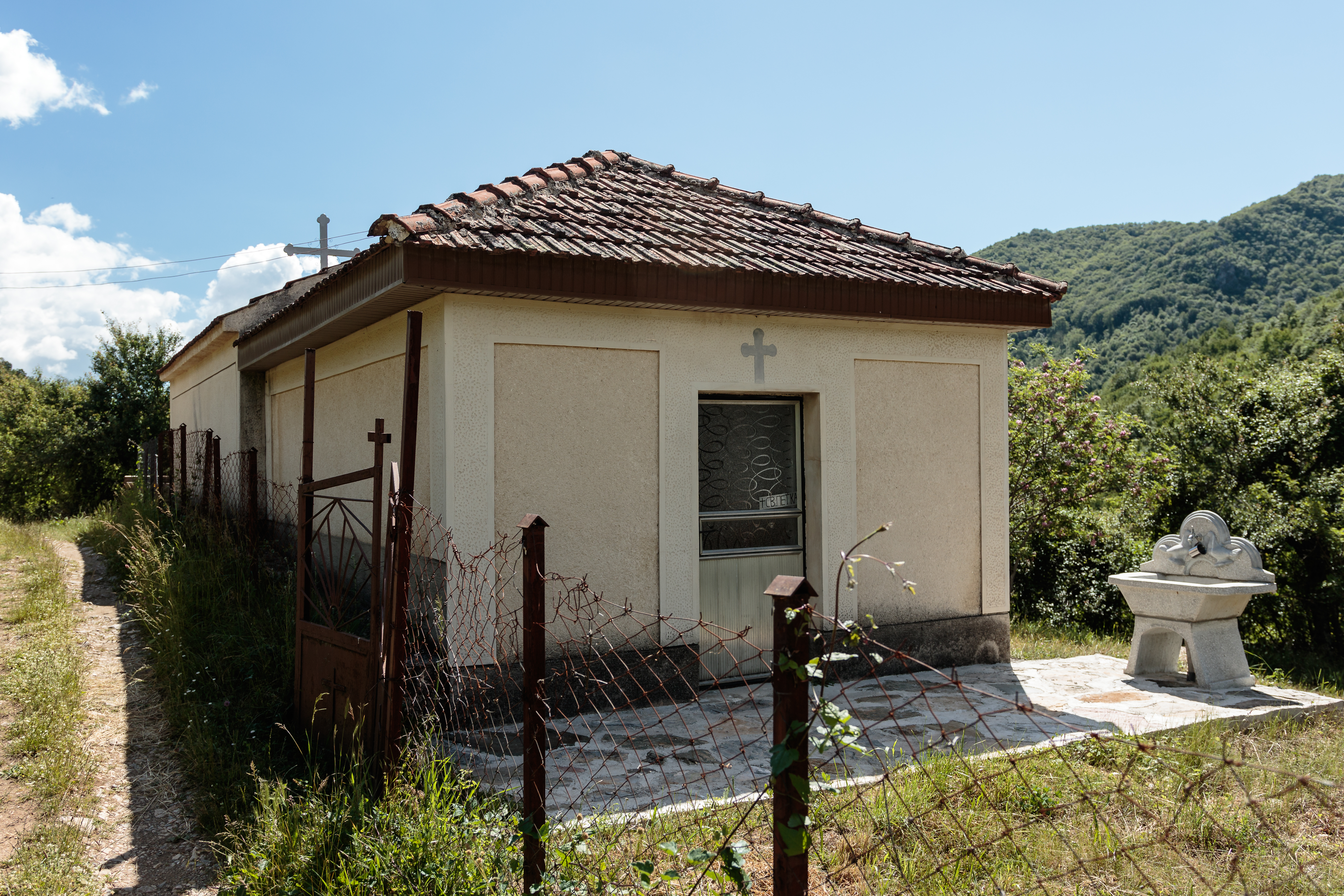 View of the St. Petka Church in the village Golemo Ilino